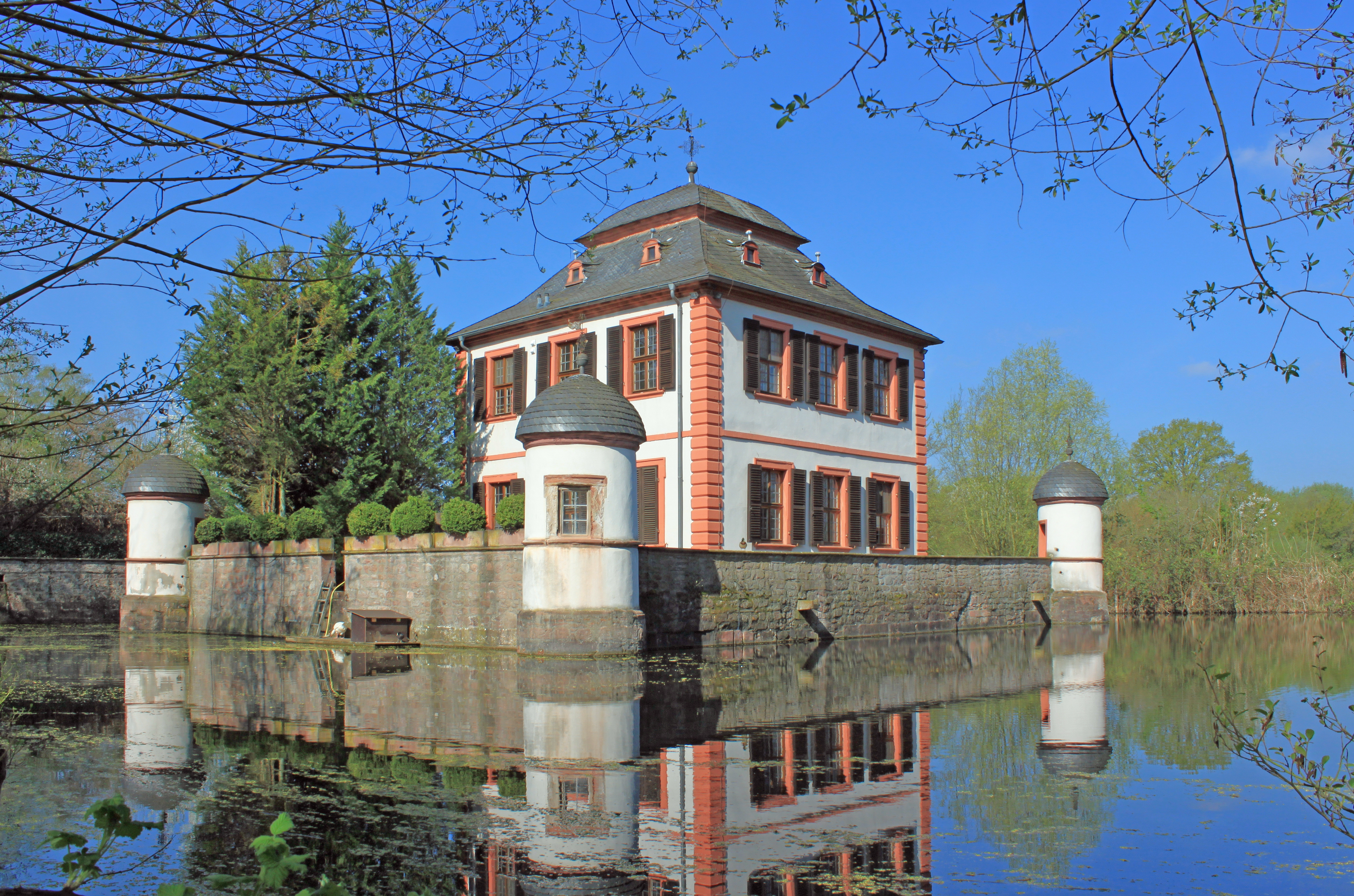 A castle built in water from Seligenstadt (Germany)